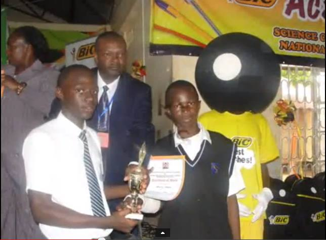 mubarack receiving national award for science congress 2011 in kenya